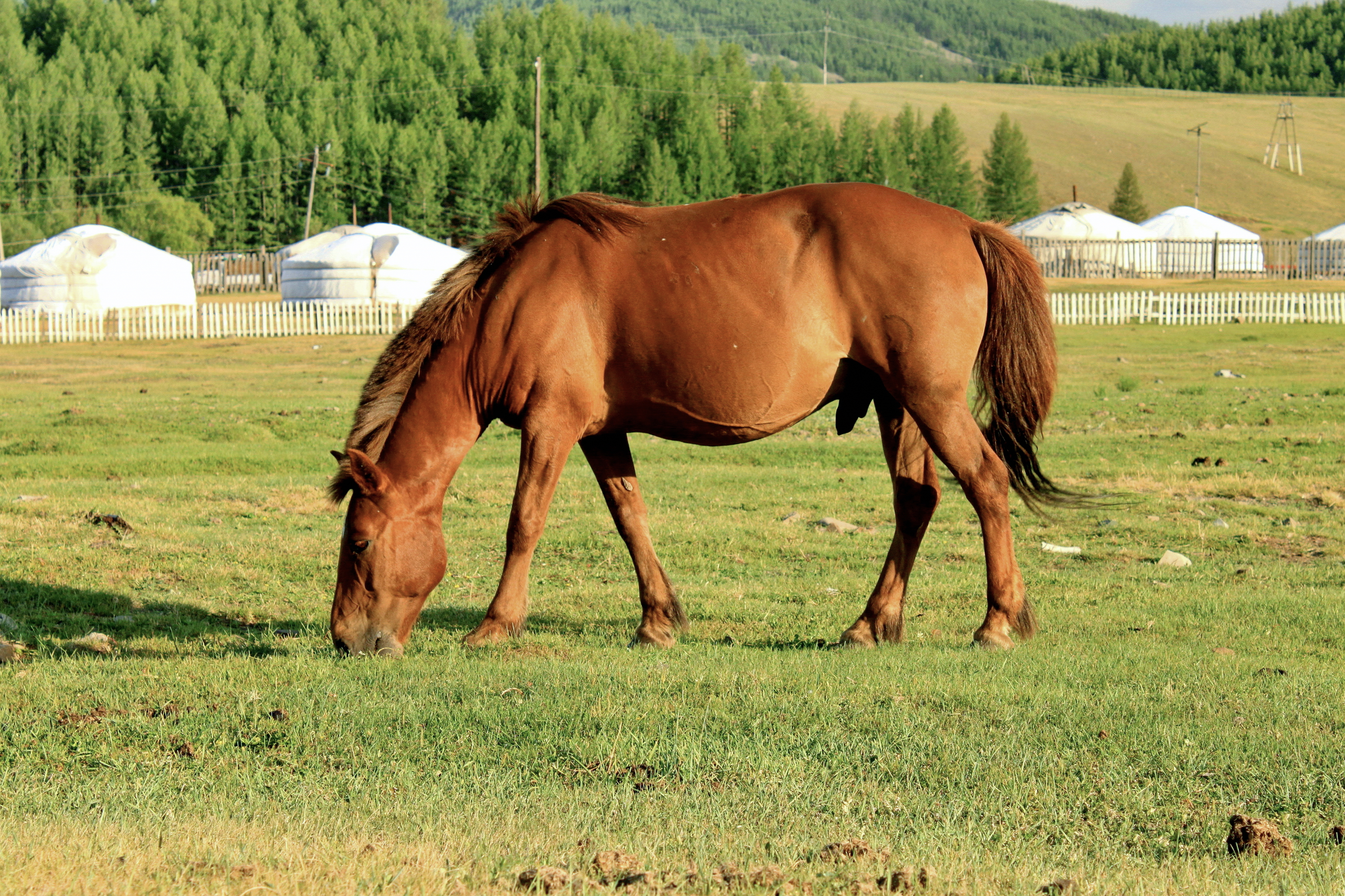 Mongolian horse. Gorkhi-Terelj National Park. Mongolia.